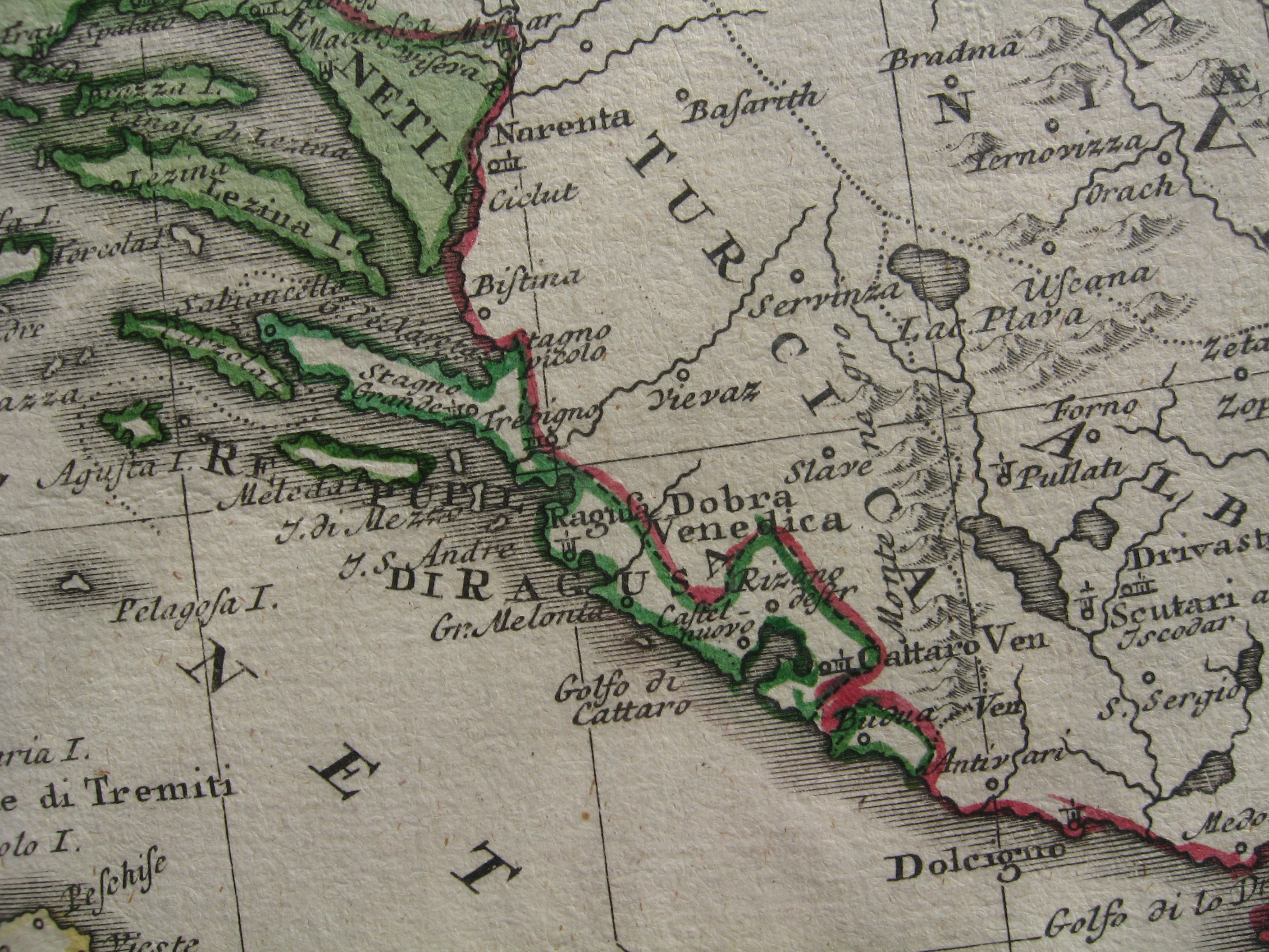 Territory of the Republic of Ragusa. Cropped from a map of Italy published by Homann Heirs in 1742.